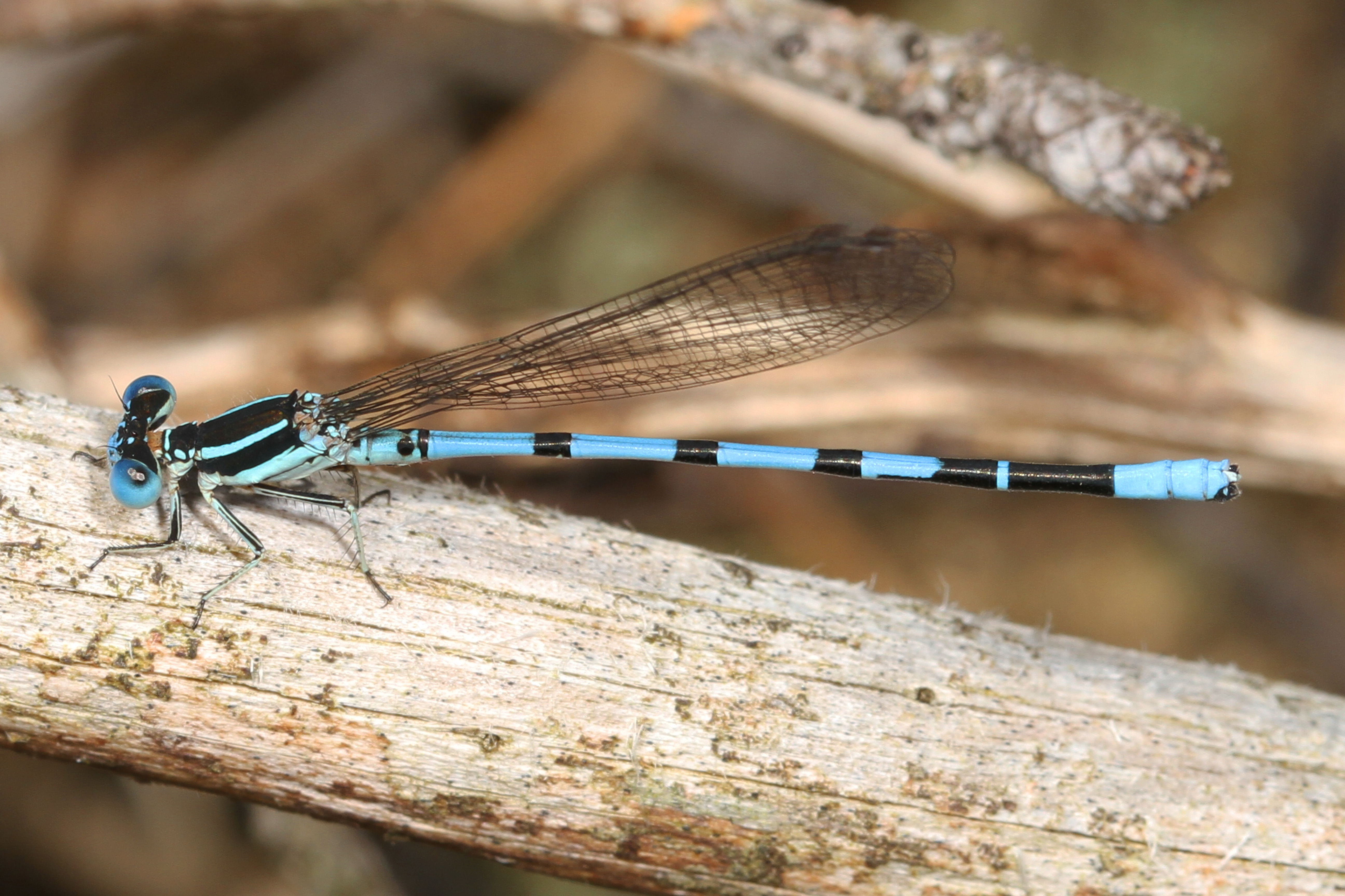 Seepage Dancer - Argia bipunctulata, Patuxent National Wildlife Refuge, Laurel, Maryland